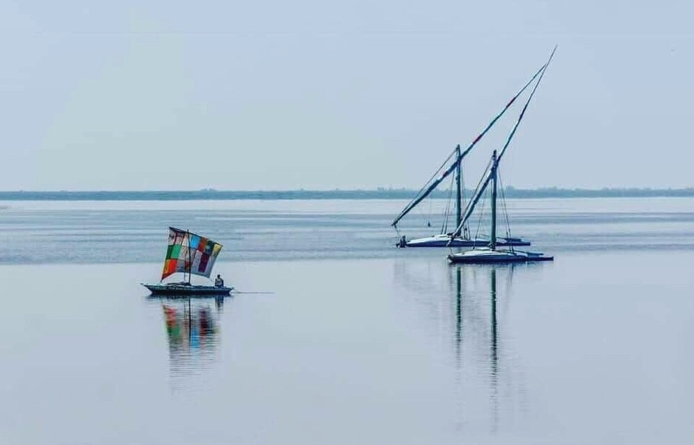 This is an image with the theme "Africa on the Move or Transport" from: Egypt